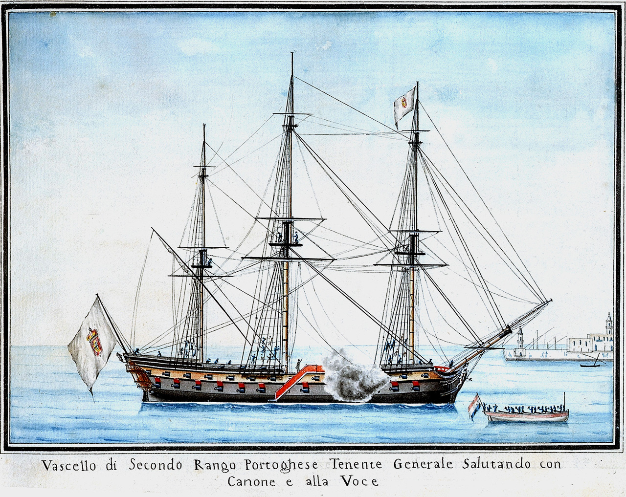 Second rate Portuguese fighting ship, saluting; watercolour